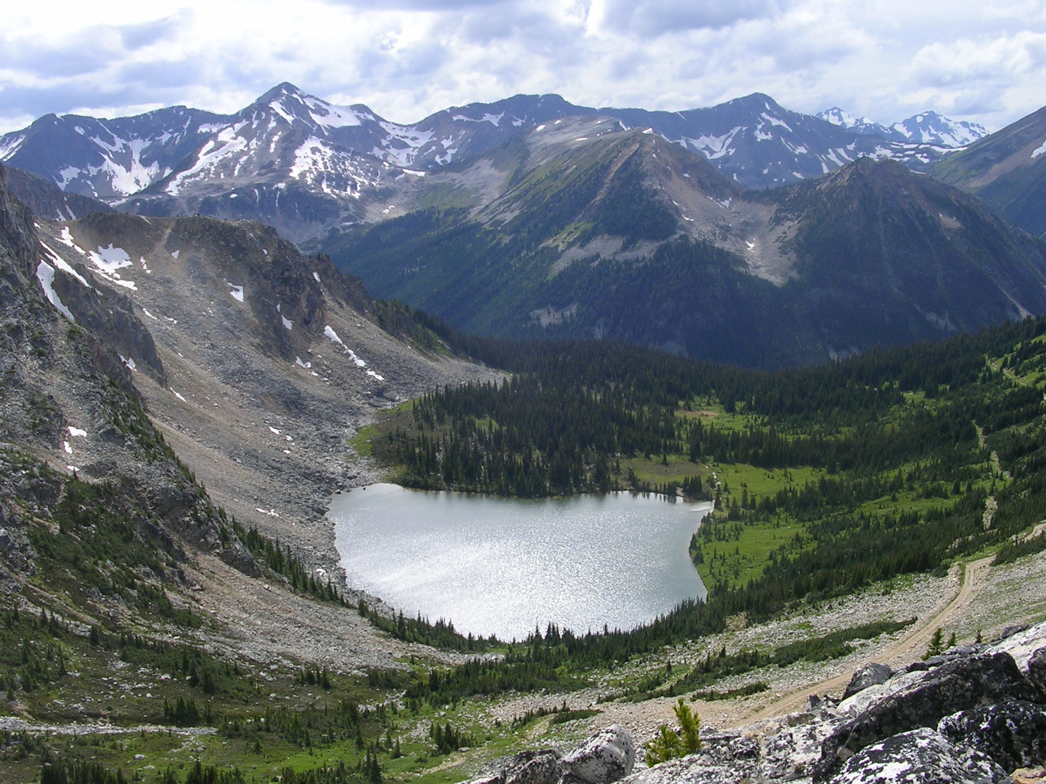 Blowdown Lake, Stein Valley Nlaka'pamux Heritage Park, British Columbia